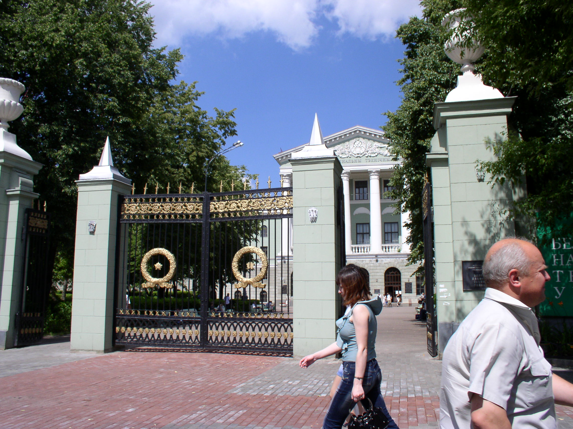 Belarusian National Technical University, Minsk, Belarus.